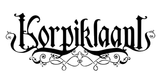 Logo of Korpiklaani band.